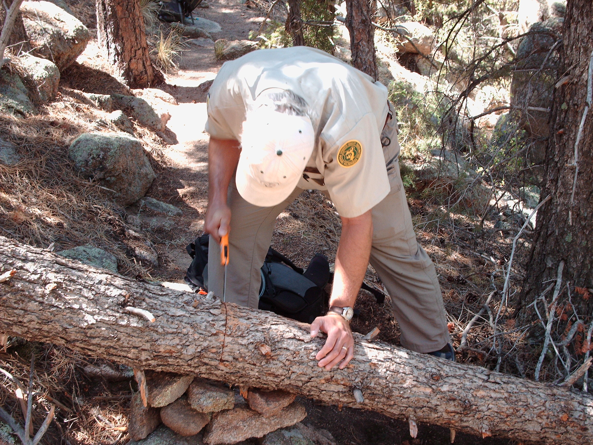 Cutting a tree that is blocking the Grey Rock Trail